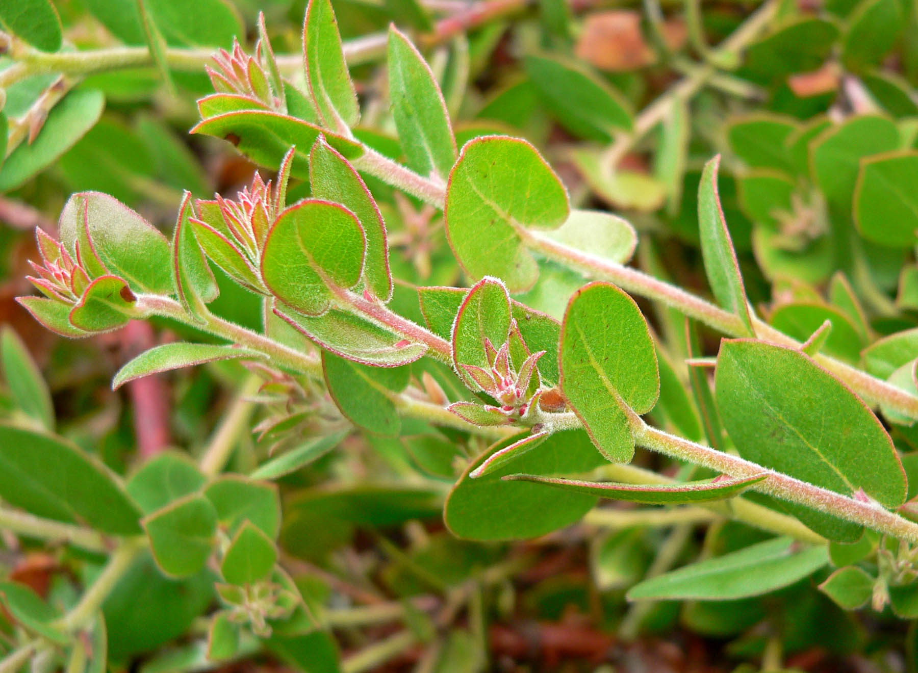 Photo of Arctostaphylos cruzensis at Regional Parks Botanic Garden